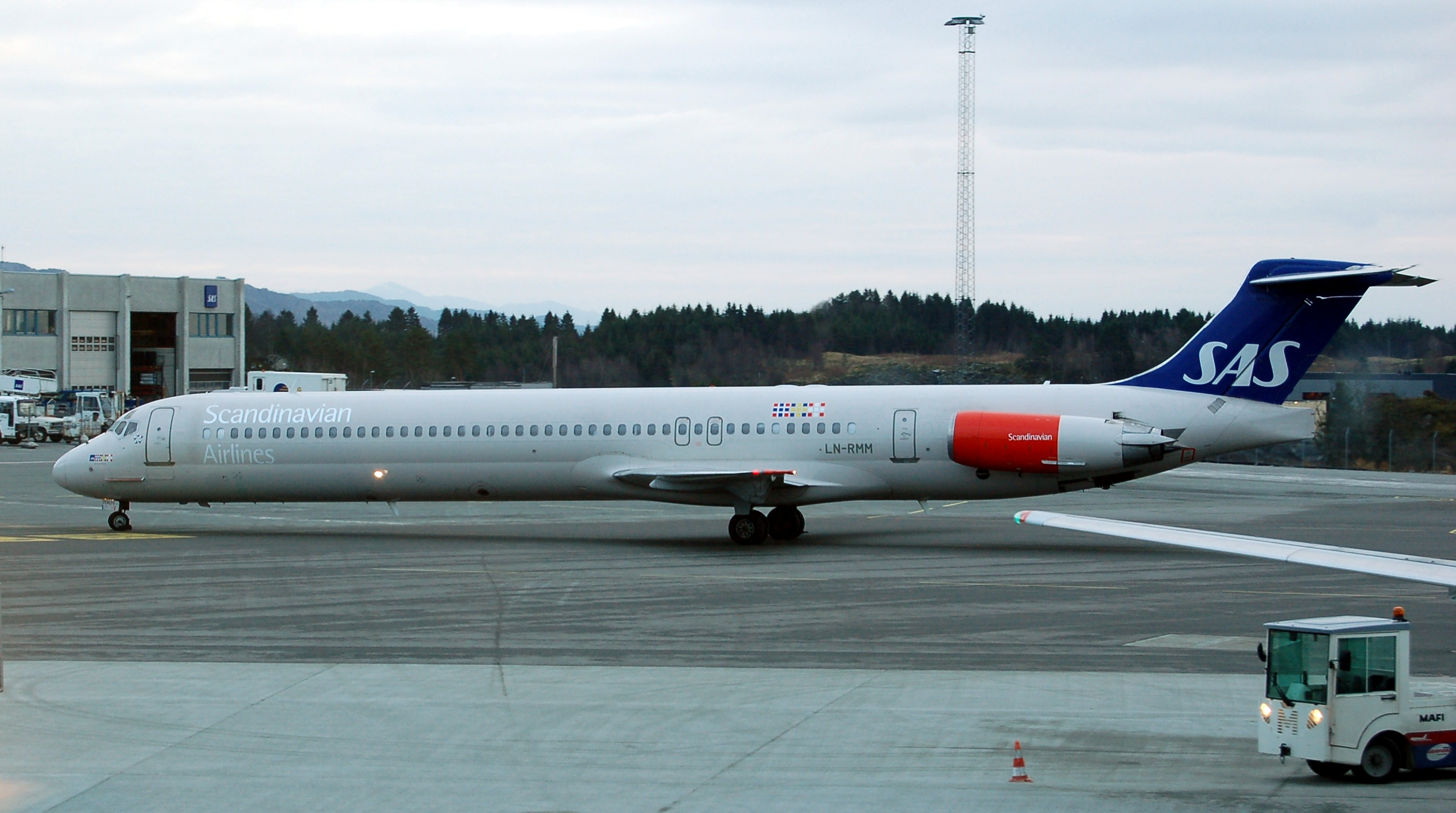 Scandinavian Airlines System McDonnell Douglas MD-82 LN-RMM at Bergen Airport, Flesland